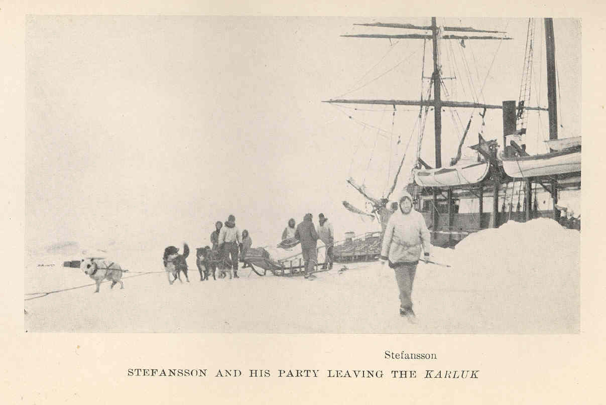 Stefansson and His Party Leaving the Karluk Subject: Karluk (Ship), Explorers, Stefansson, Vilhjalmur, 1879-1962 Tag: Polar, Vessels